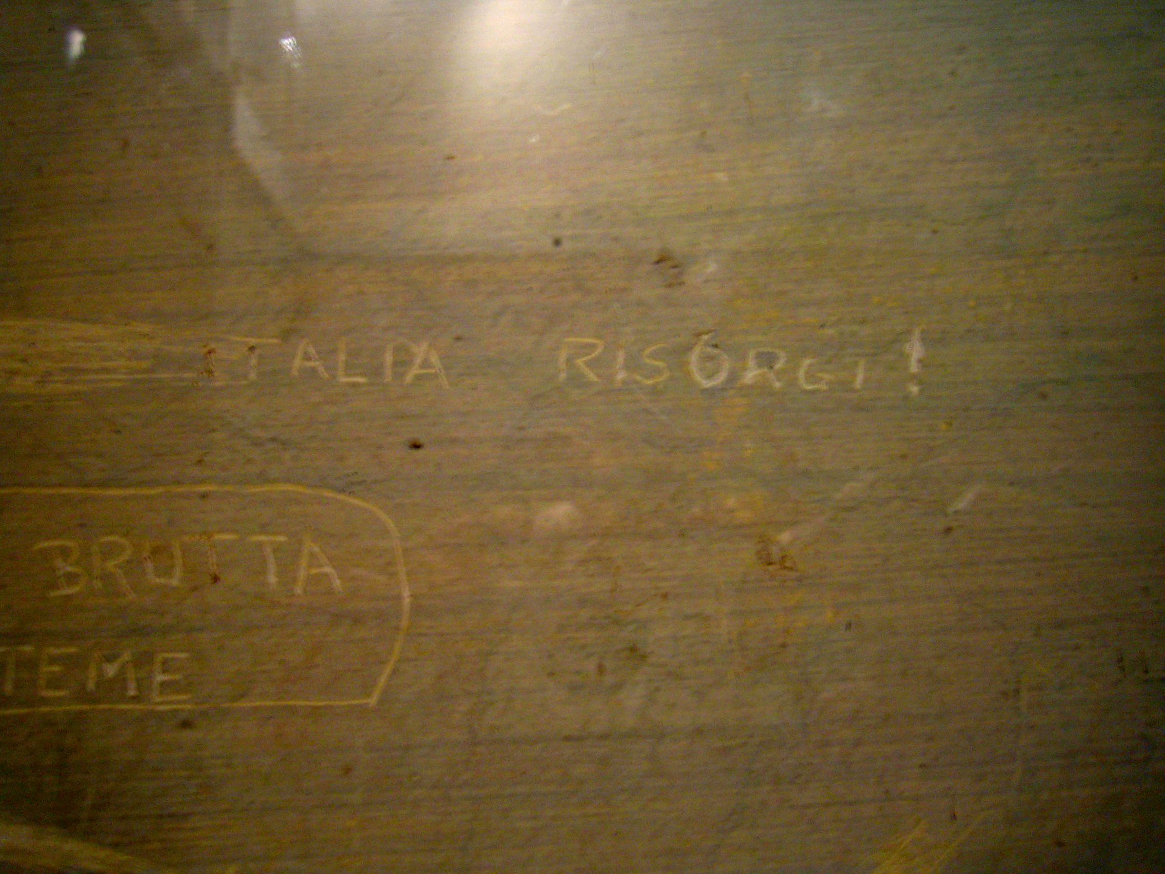 "Italy, rise again!" A defiant graffito in a prison cell in the via Tasso SS headquarters. Most of the occupants of this cell, and the rest, were slaughtered.